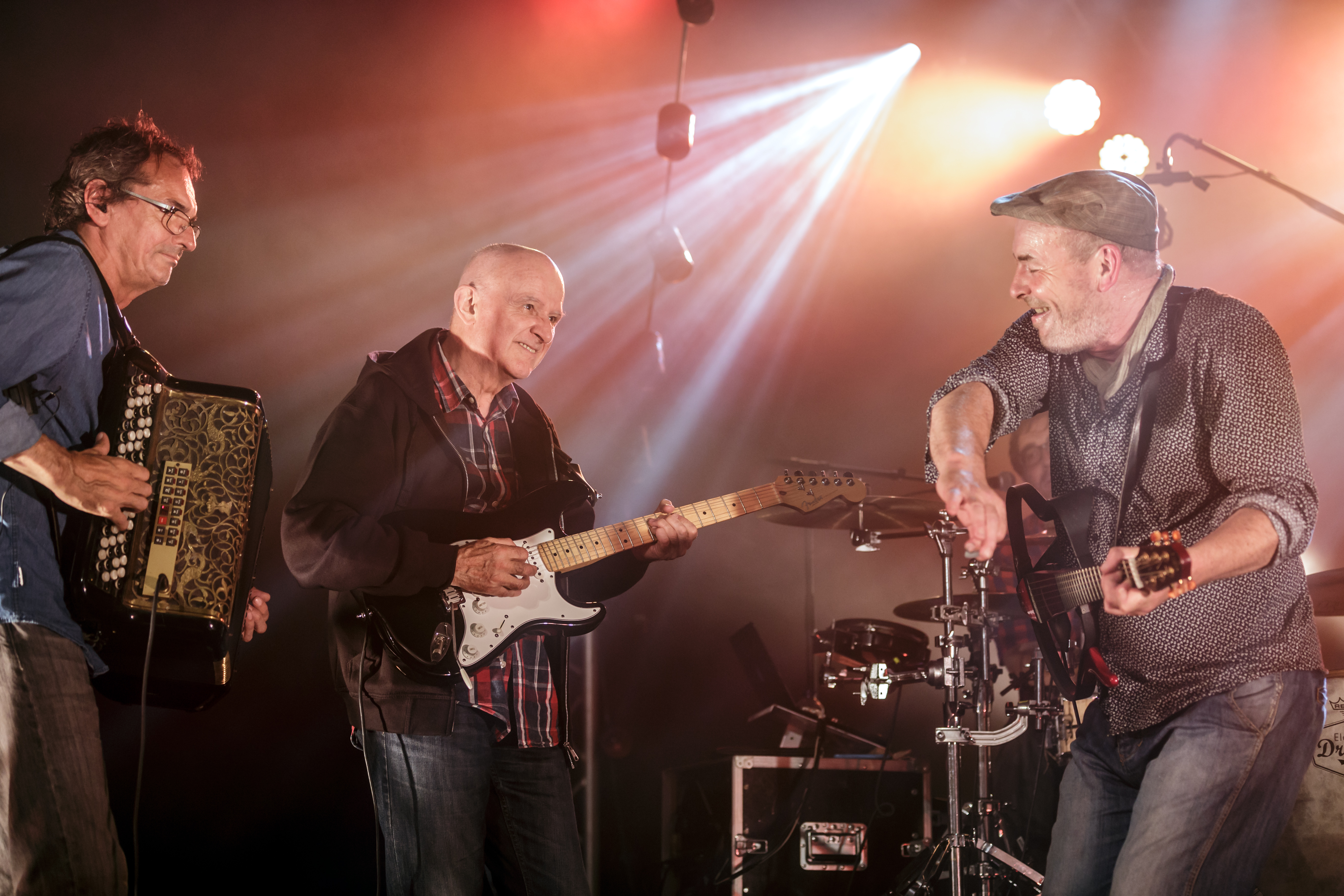 Red Cardell in live during Cornouaille Festival (Quimper, Brittany) July 22, 2016.